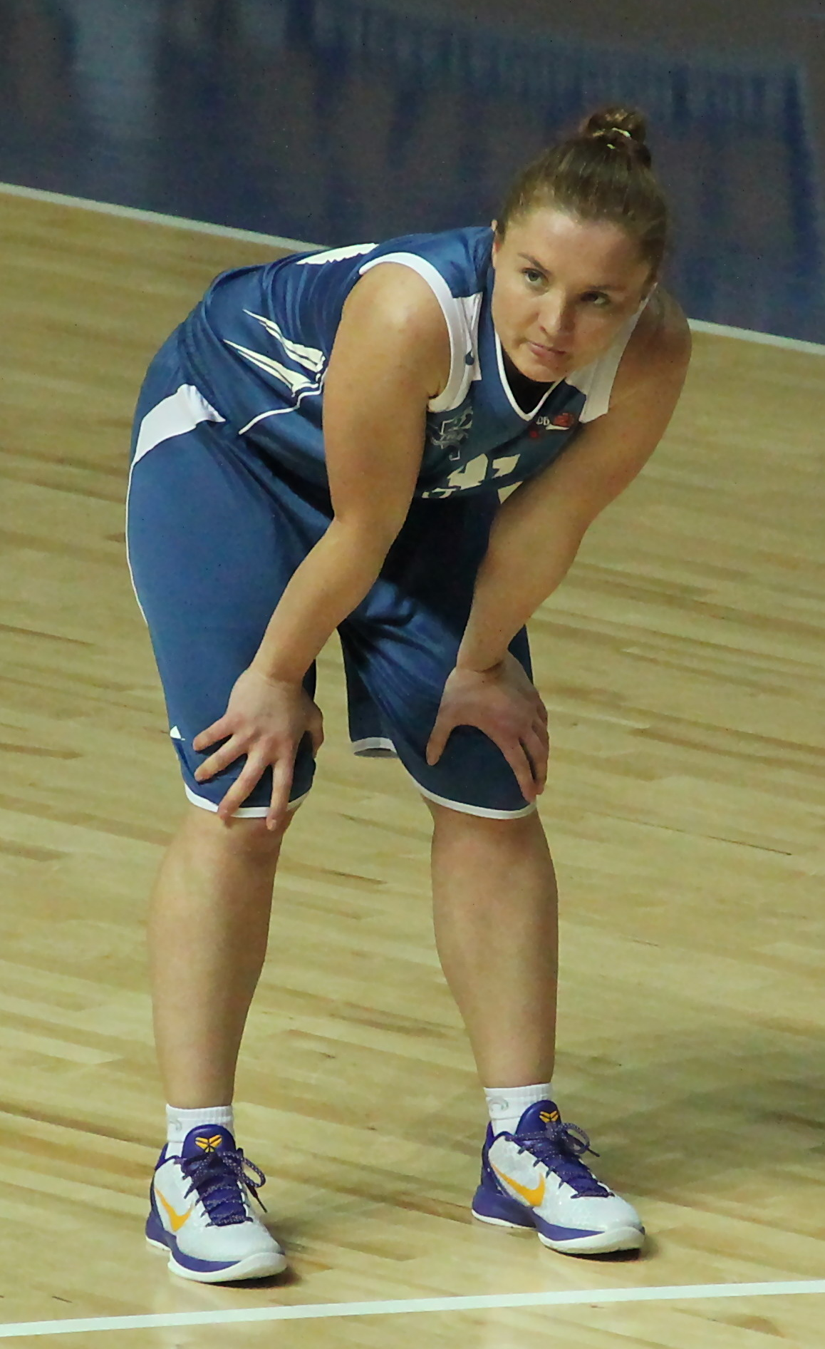 Russia, Vologda, Olga Sokolovskaya in game «Vologda-Chevakata» vs «Dinamo-GUVD» (Novosibirsk)